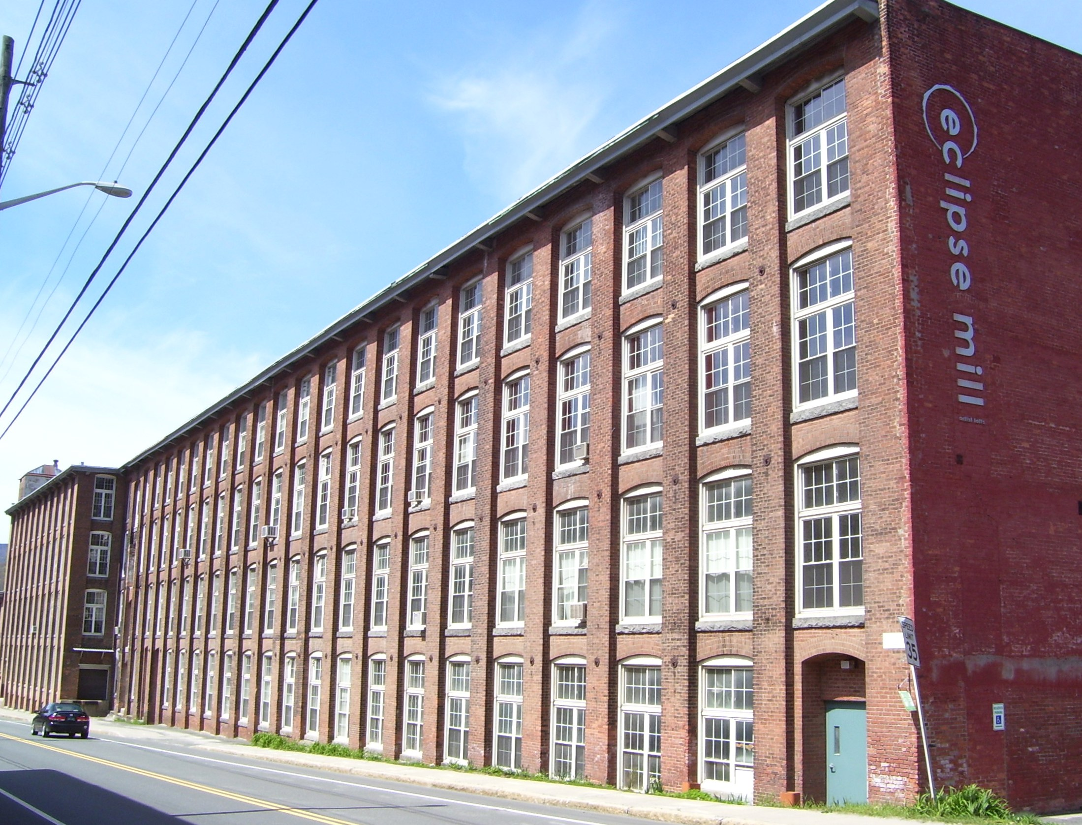 The Eclipse Mill at 243 Union Street between Rand and Gallup Streets in North Adams, Massachusetts was built in 1896 as a textile mill, and was part of a large complex of mill buildings along Union Street. It and another mill across the street were purchased in 1911 by a wool manufacturer, the Hoosac Mill Corporation of Boston. In the 1950s, the Eclipse Mill was purchased by Sprague Electronics and was used until 1971 to manufacture capacitor parts. It was sold to a military contractor, the X-Tyal Corporation, which went bankrupt in the early 1990s. From 2002-2005 artist and developer Eric Rudd converted it into forty studio loft condominiums in which artists can live and work. The building also contains several art galleries, a pottery gallery and a bookstore. (Sources:[1], [2], [3])